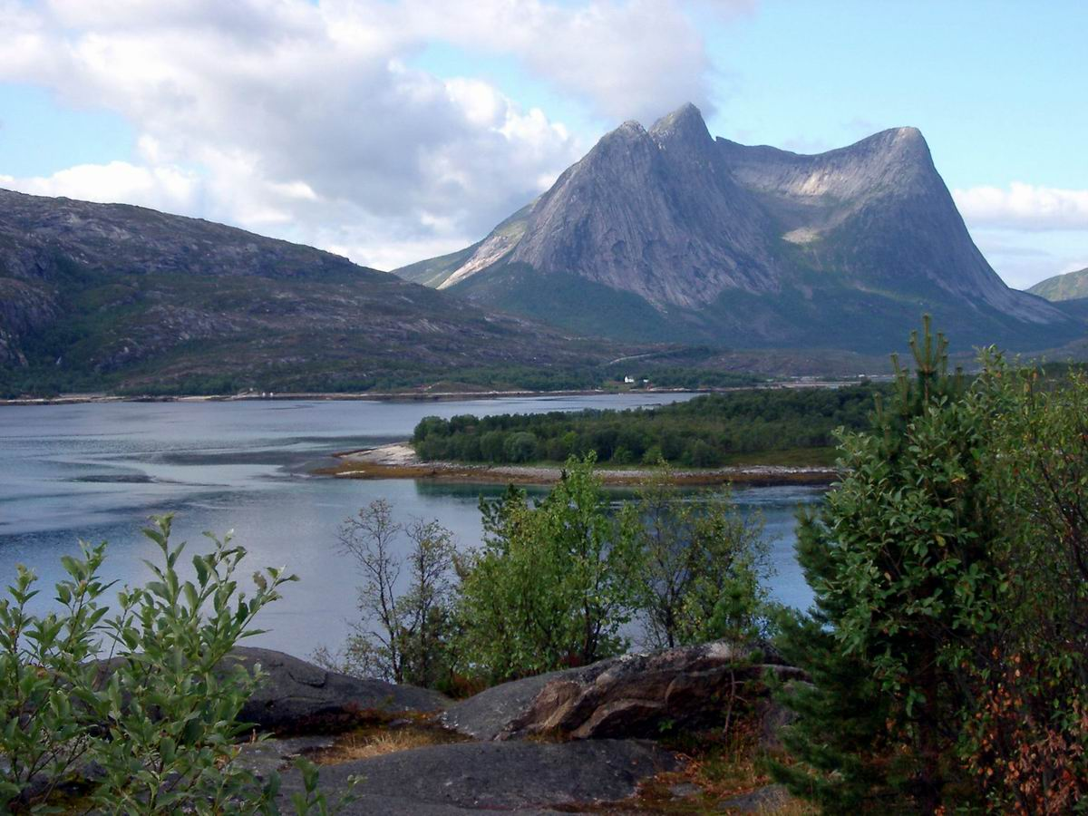 Efjord, Ballangen municipality, Norway.